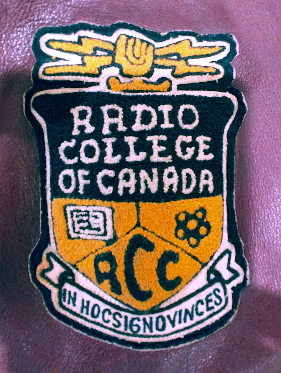 This was the crest on the school jacket if you ordered one. The wording along the bottom "In hoc signo vinces" is a Latin phrase conventionally translated into English as "In this sign thou shalt conquer".